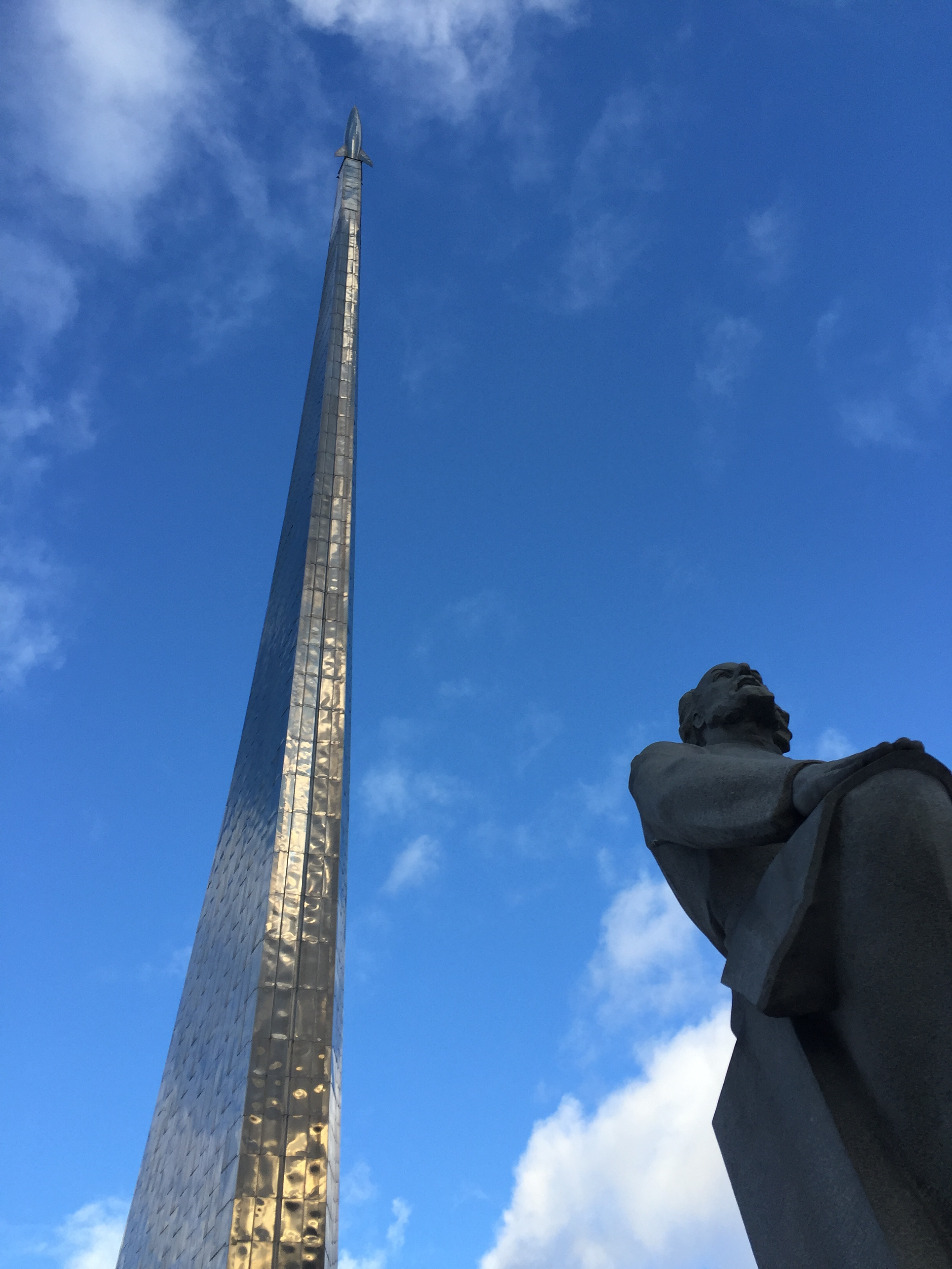 Monument to the Conquerors of Space and statue of Konstantin Tsiolkovsky.